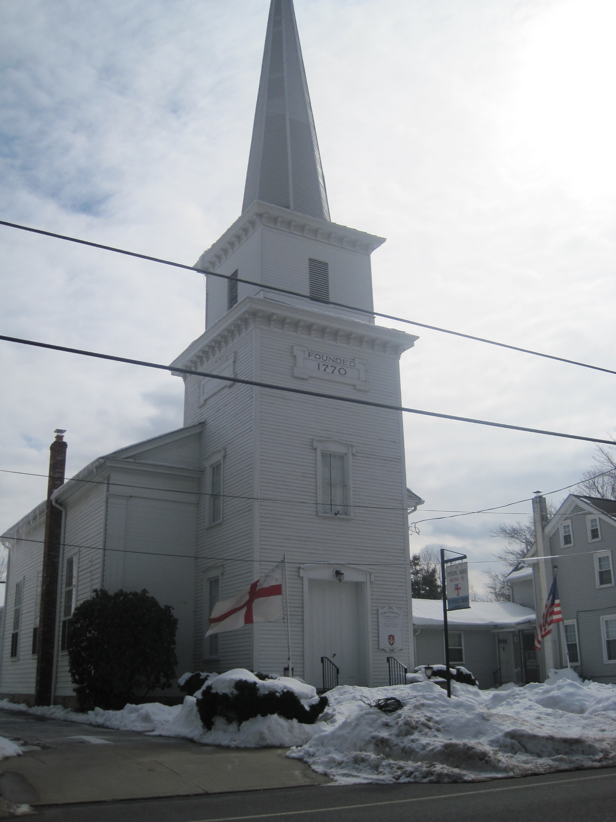 St. Peter’s Protestant Episcopal Church was founded on November 9th, 1770 and was incorporated April 28th, 1835. It’s a colonial parish being the last Anglican Church founded in New Jersey before the Revolutionary War, the last of twenty. It was placed on the National Register of Historic Places by the United States Department of Interior on August 11, 1977. The early history is interesting and reflects the demographic realities of this part of historic King’s Highway. Though founded as a chapel of the Church of England, the early church in Berkeley was home to Anglicans, Methodists and Quakers. It was not until later that a conscious decision was made by the then “managers” to become an Episcopal Parish. One remarkable feature is St. Peter’s has managed in its long history to boast of only twenty two ministers (vicars & rectors) which attests to its innate stability and ability to adapt to the changing makeup of the Episcopal Church. It continues to be home to All Sorts and Conditions of Persons doing the work of ministry in the County of Gloucester.